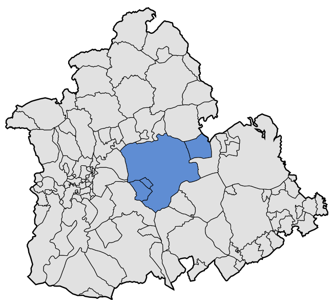 Map of Campiña de Carmona, region of province of Sevilla, Spain